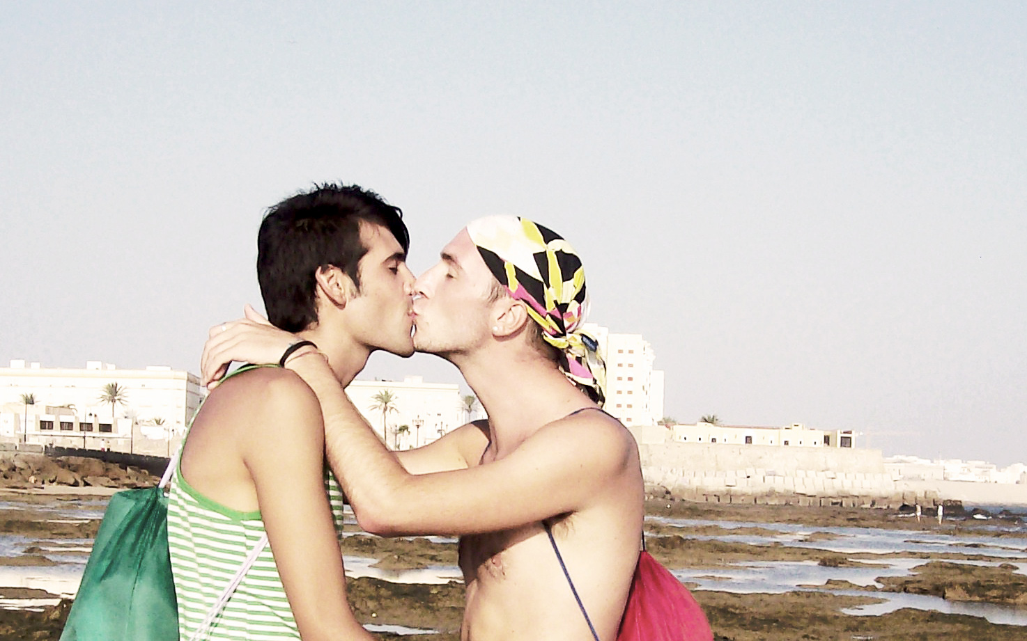 This photo was taken on January 19, 2006 in San Sebastián, Andalusia, ES, using a Kodak EasyShare C643 Zoom.